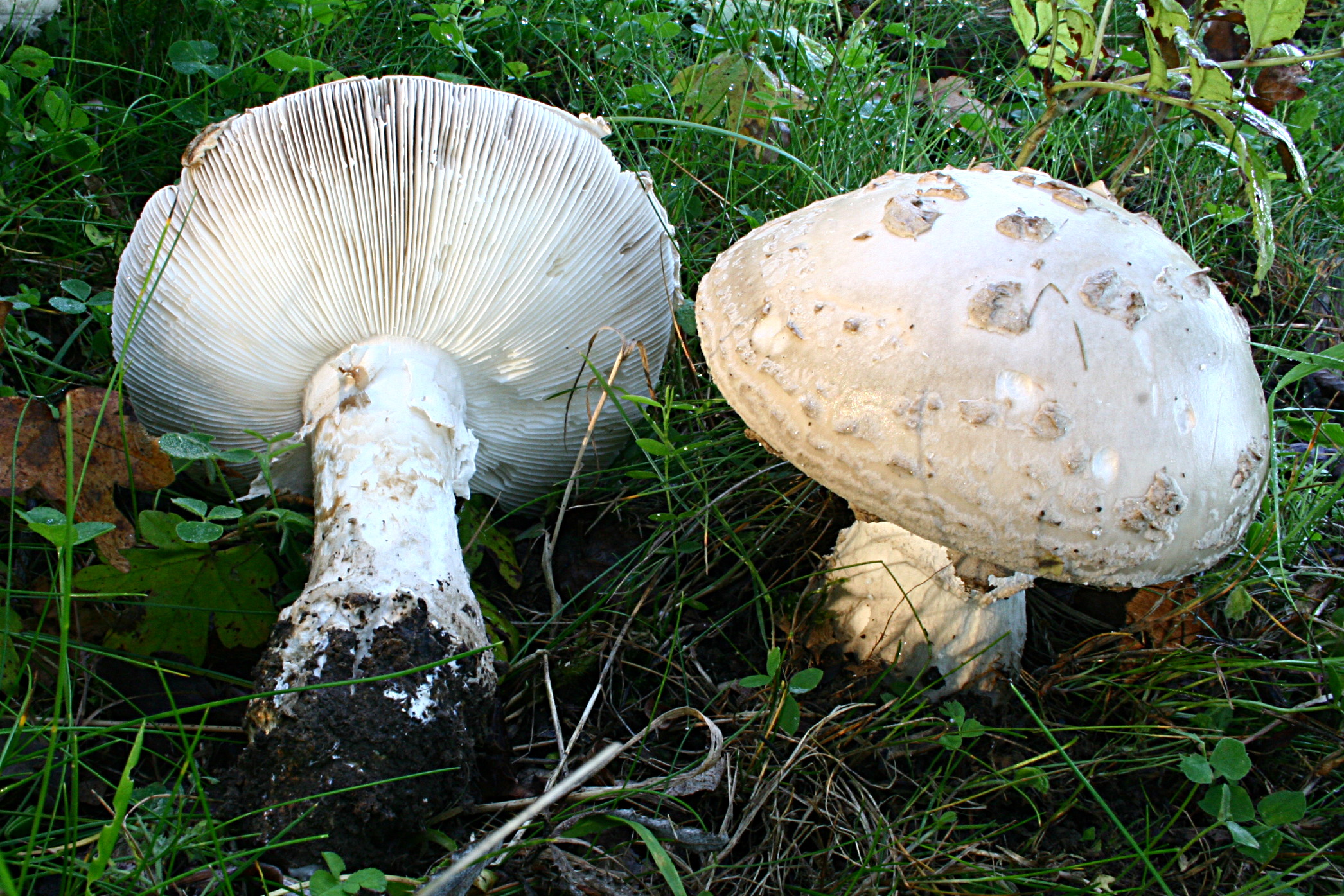 Amanita strobiliformis on a golf course near Bourton-under-Blean, Kent.